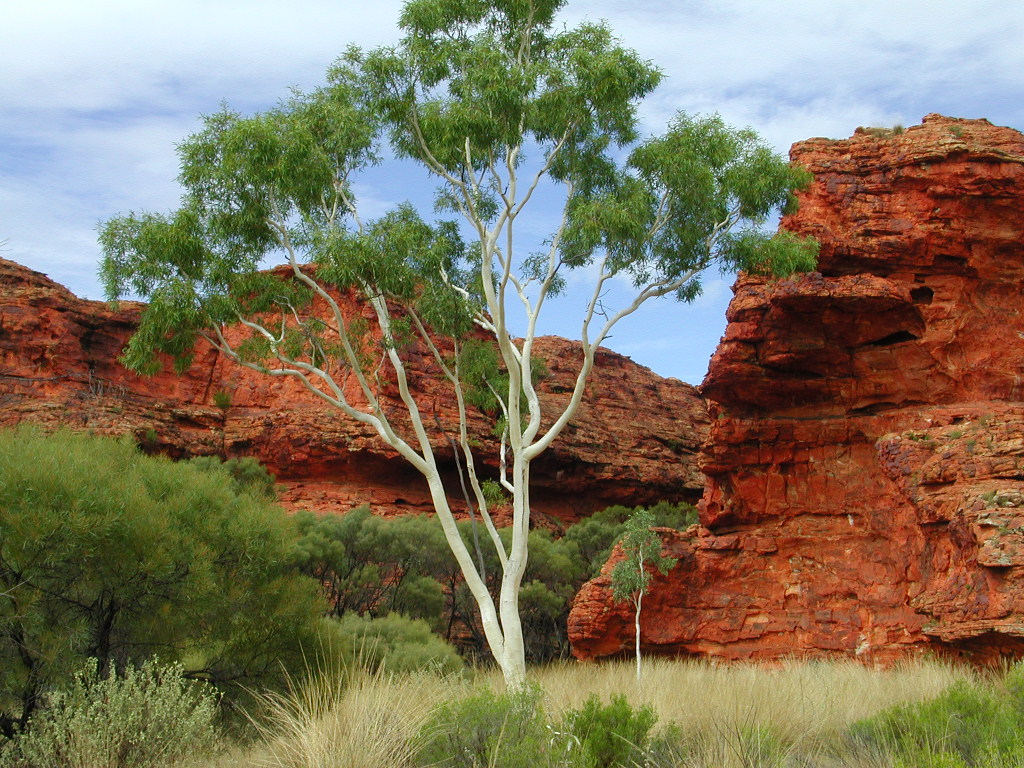 Kings Canyon, Australia